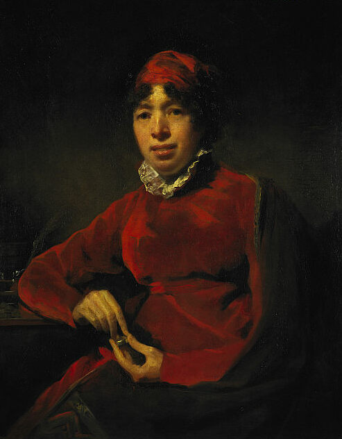 Portrait of Elizabeth Hamilton (1757-1816)